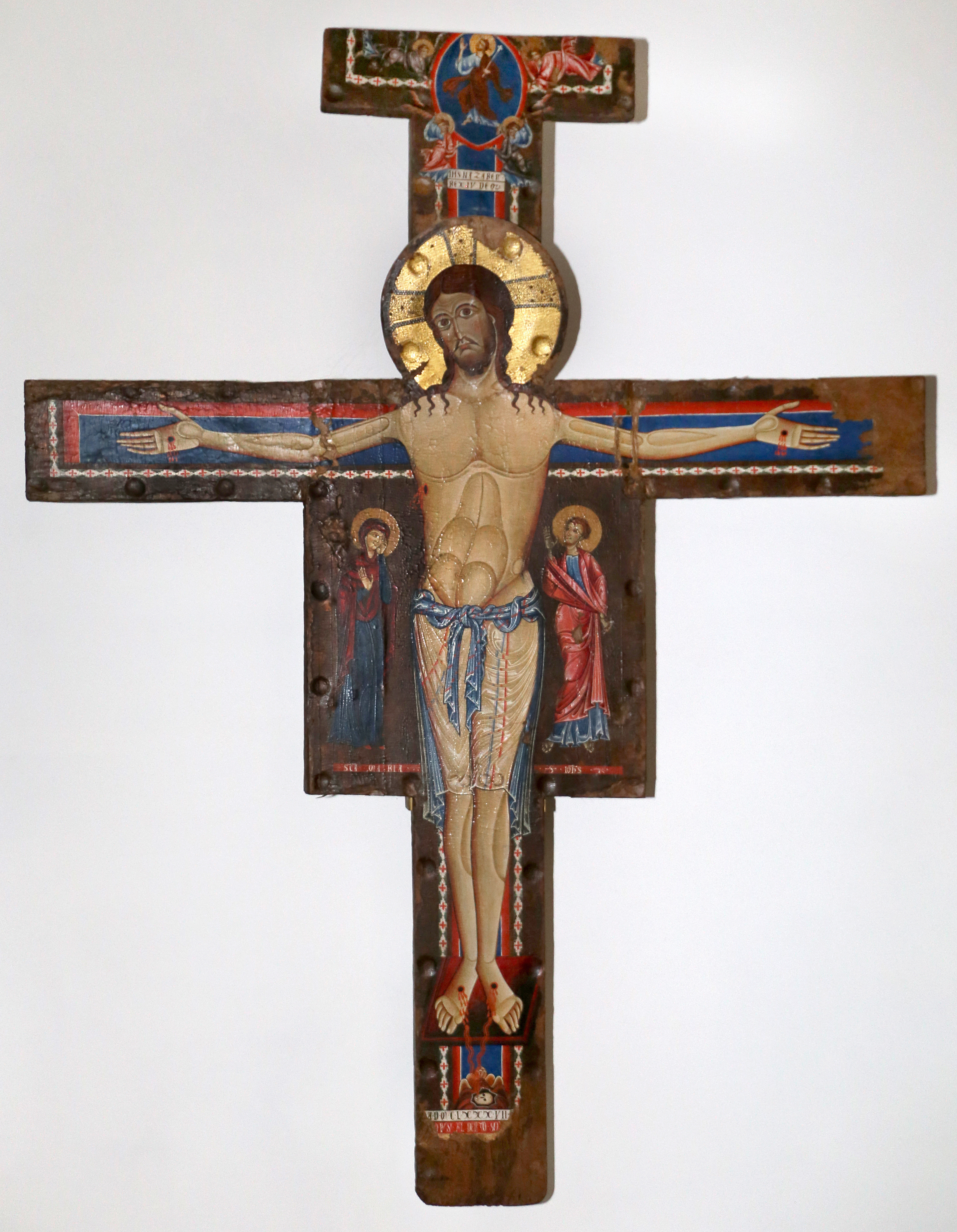 Painted crucifix by Alberto Sotio (Spoleto)